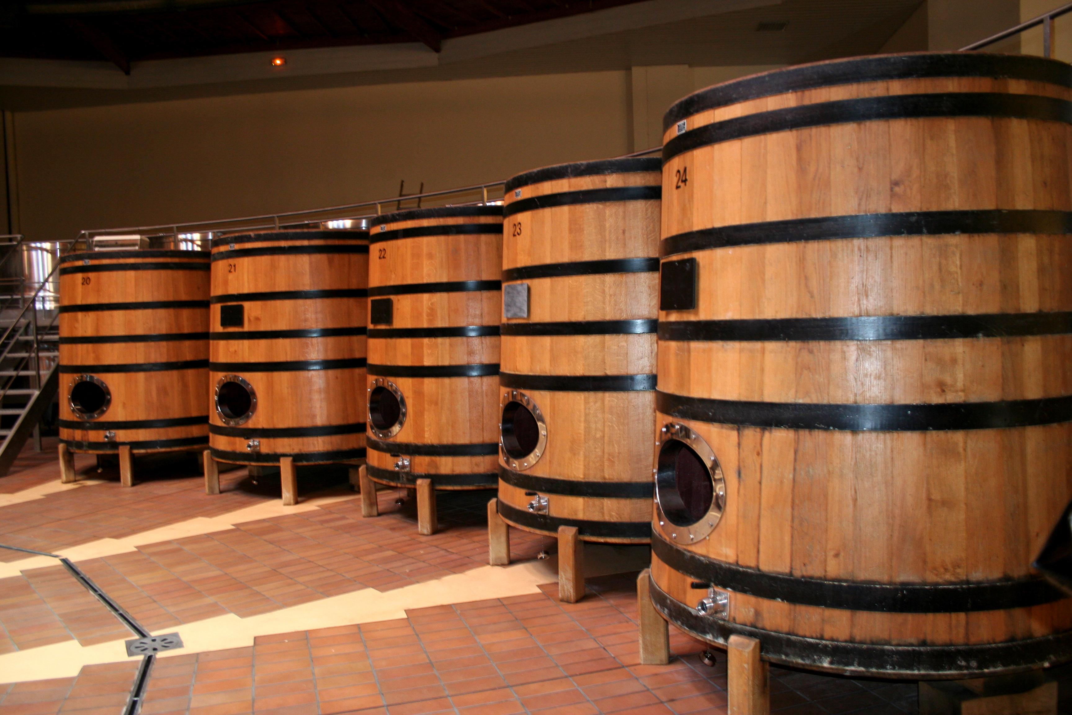 Barrel fermentation tanks belonging to the French wine negocient